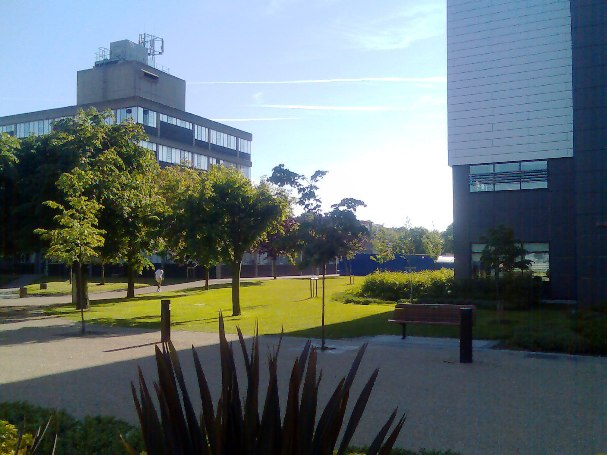 A View of Brunel University, Uxbridge. Showing rear end of Bannerman building